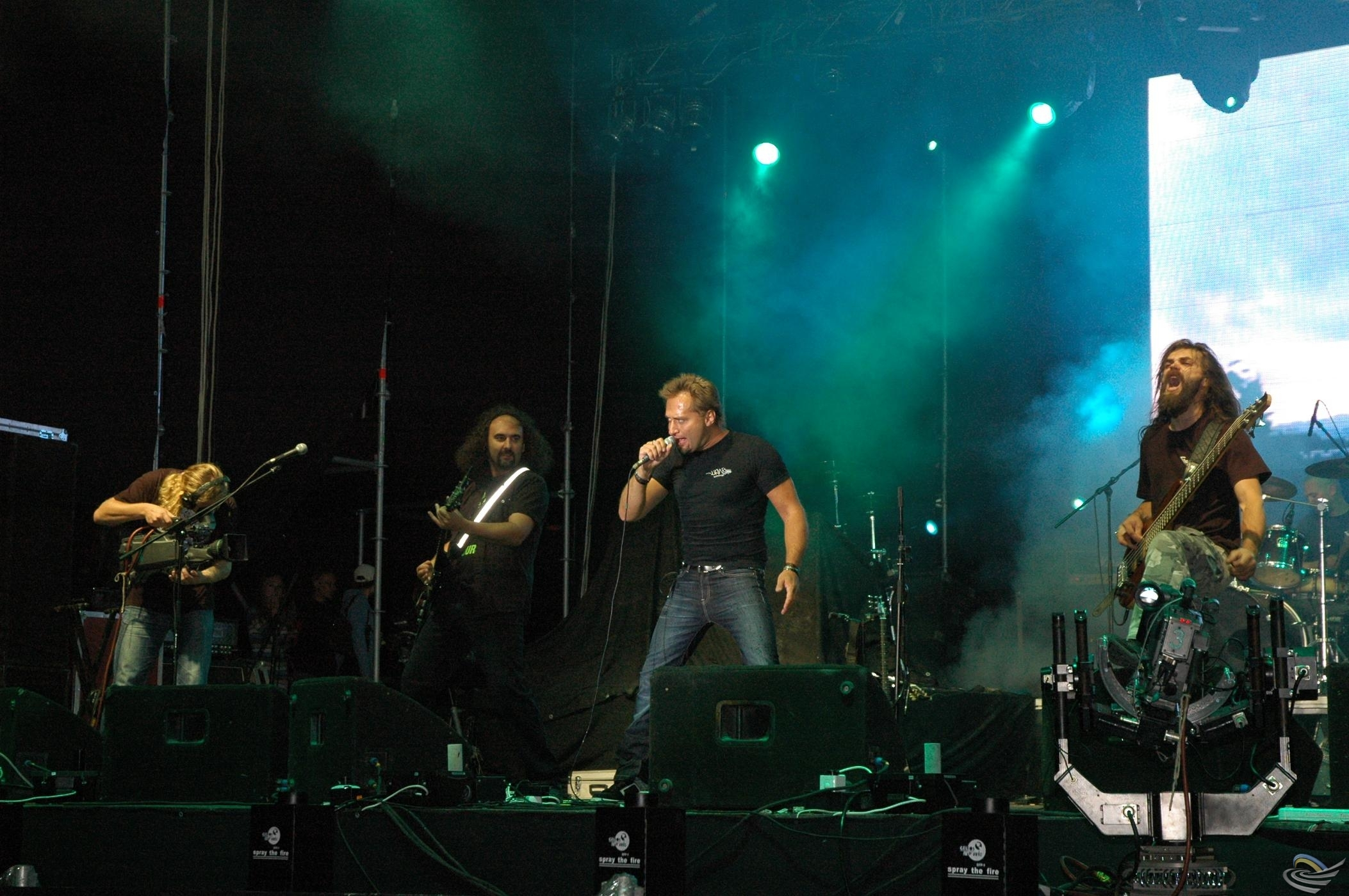 white_krock_2008